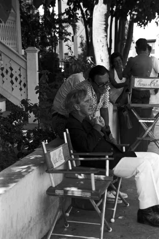 Burgess Meredith in front of 336 Duval Street during the filming of 92 in the Shade in November 1974. Collection of Florida Keys Public Libraries.